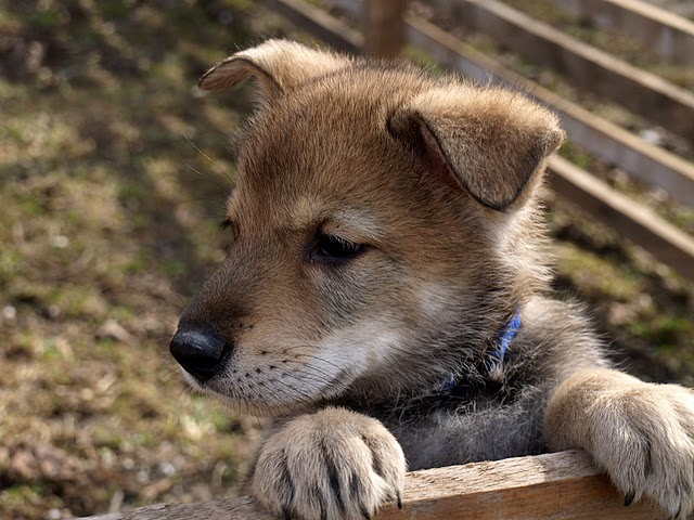 picture of a 6 week old saarlooswolfhond